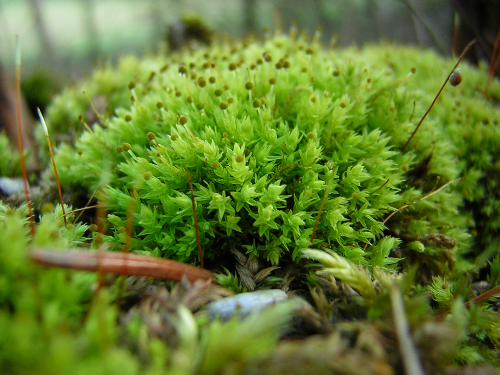 Aulacomnium androgynum (Hedw.) Schwägr.